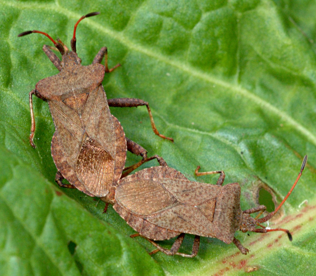 Coreus marginatus (dock bugs) mating, Verulamium Park, St Albans, Hertfordshire, England.